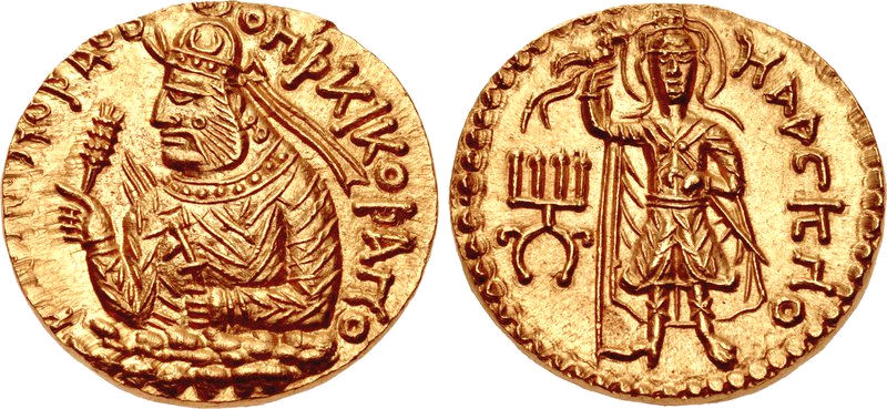 Huvishka. Circa AD 152-192. AV Dinar (19mm, 8.01 g, 12h). Mint II (B). 1st emission. ÞAONANOÞAO OOhÞKI KOÞA(retrograde h)O, nimbate, diademed, and crowned half-length bust facing on clouds, head left, holding mace-scepter in right hand, left hand on hilt of sword / MAACh(retrograde h)O, Maaseno, nimbate and crowned, standing facing, holding bird-tipped and filleted scepter in right hand, left hand on hilt of sword; tamgha to left.